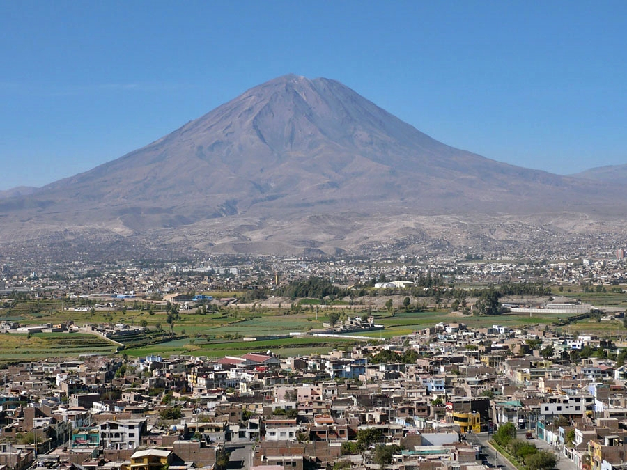 Arequipa City's panoramic view